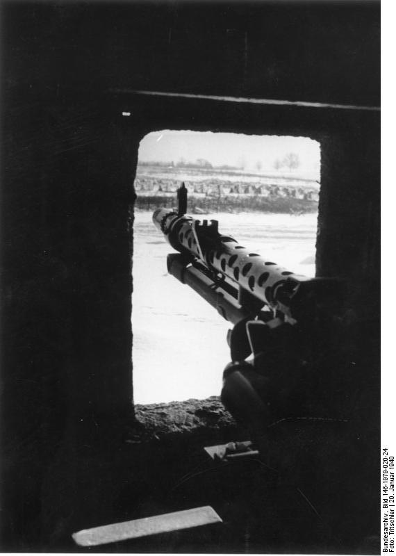 Saarbrücken, 20.1.1940 View though the machine-gun emplacement of a bunker. The advance filed and the barricades in their winter dress.